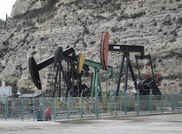 Oli pumps in Ragusa (Sicily).